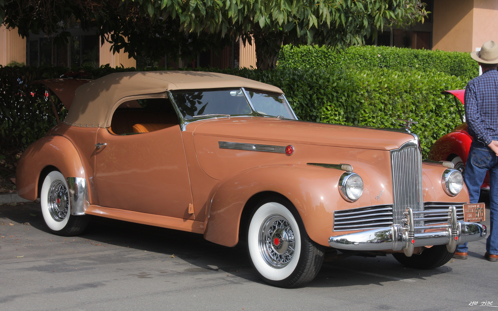 1942 Packard Darrin Convertible Coupe Packard Club at the Double Tree Hotel, Orange, CA